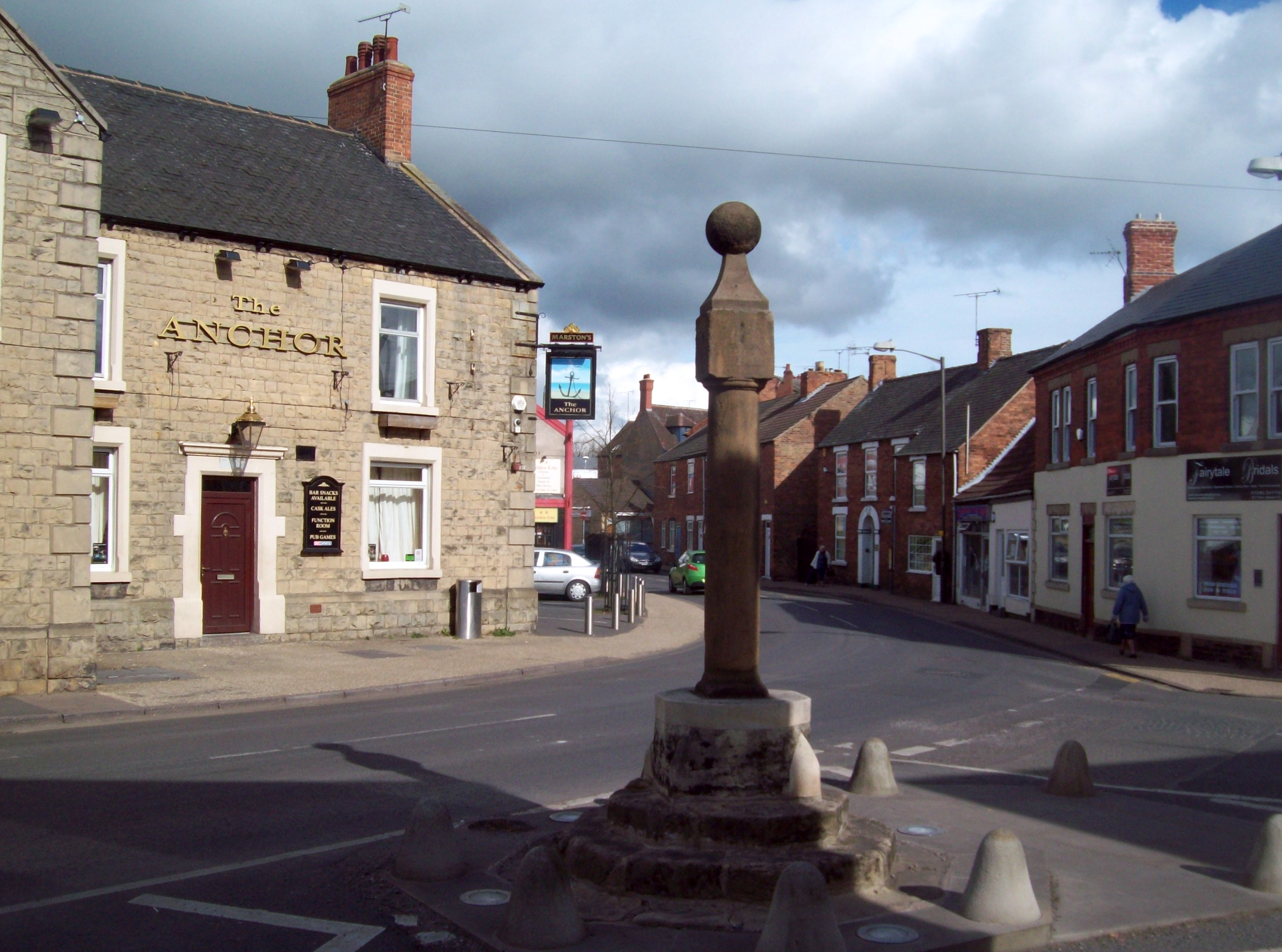 Clowne Market Cross